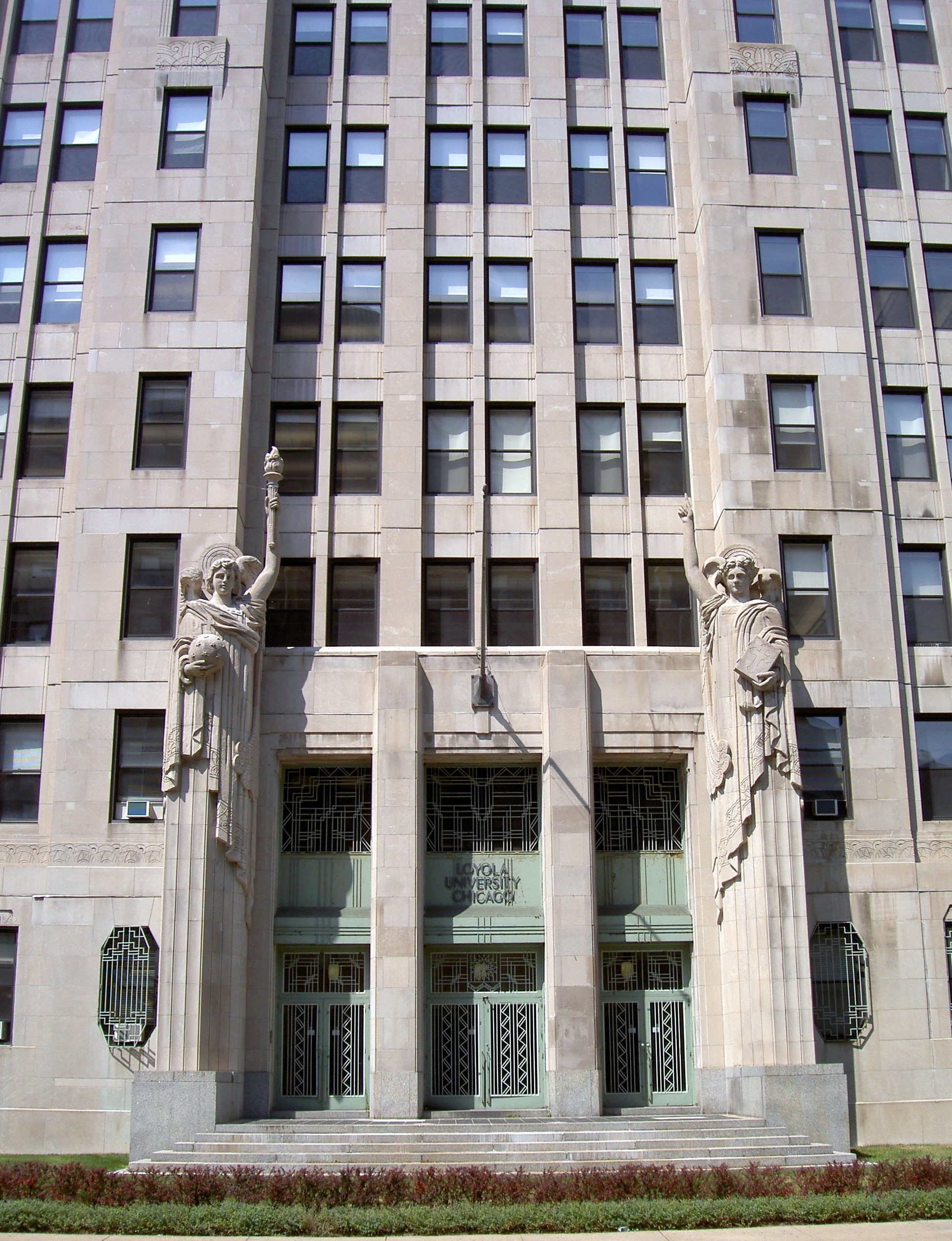 Art Deco elements; Loyola University Chicago. The two towering statues at the entrance represent the angels Jophiel and Uriel. Jophiel holds the planet Earth and lifts the torch of knowledge; Uriel holds the book of wisdom and points to a cross in Bas-relief on the fourteenth floor.